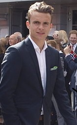 Andreas Vindheim